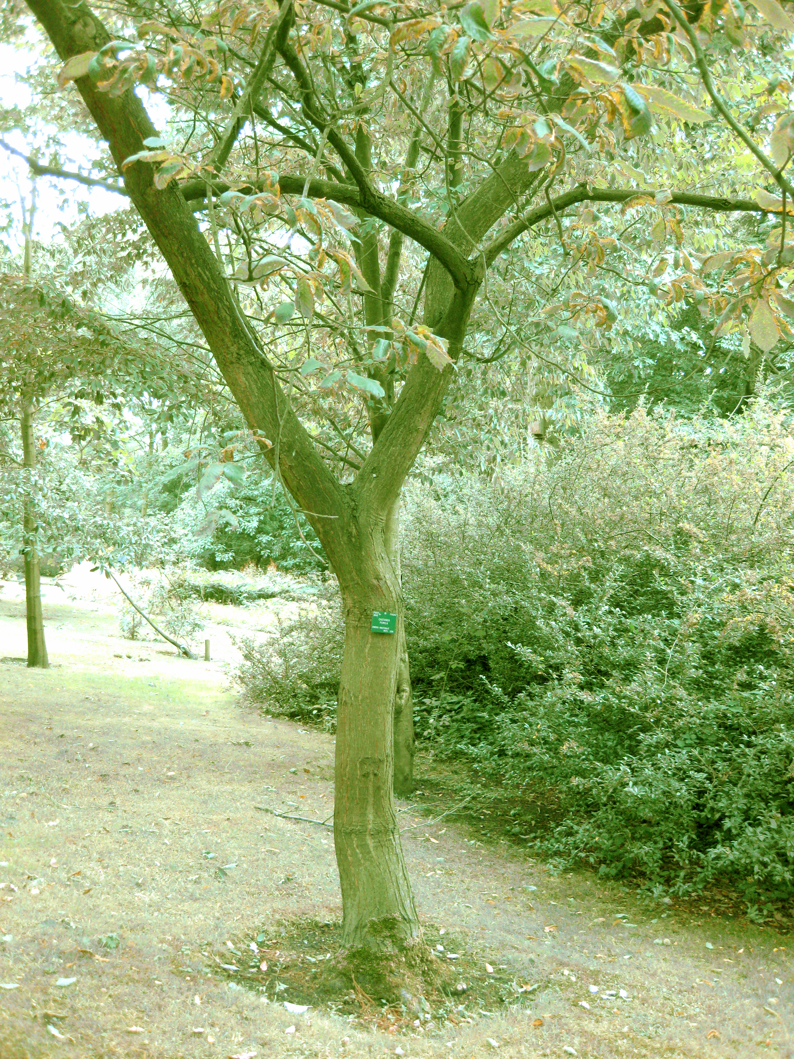 Castanea pumila (dvergkastanía) in the botanical garden in Copenhagen.